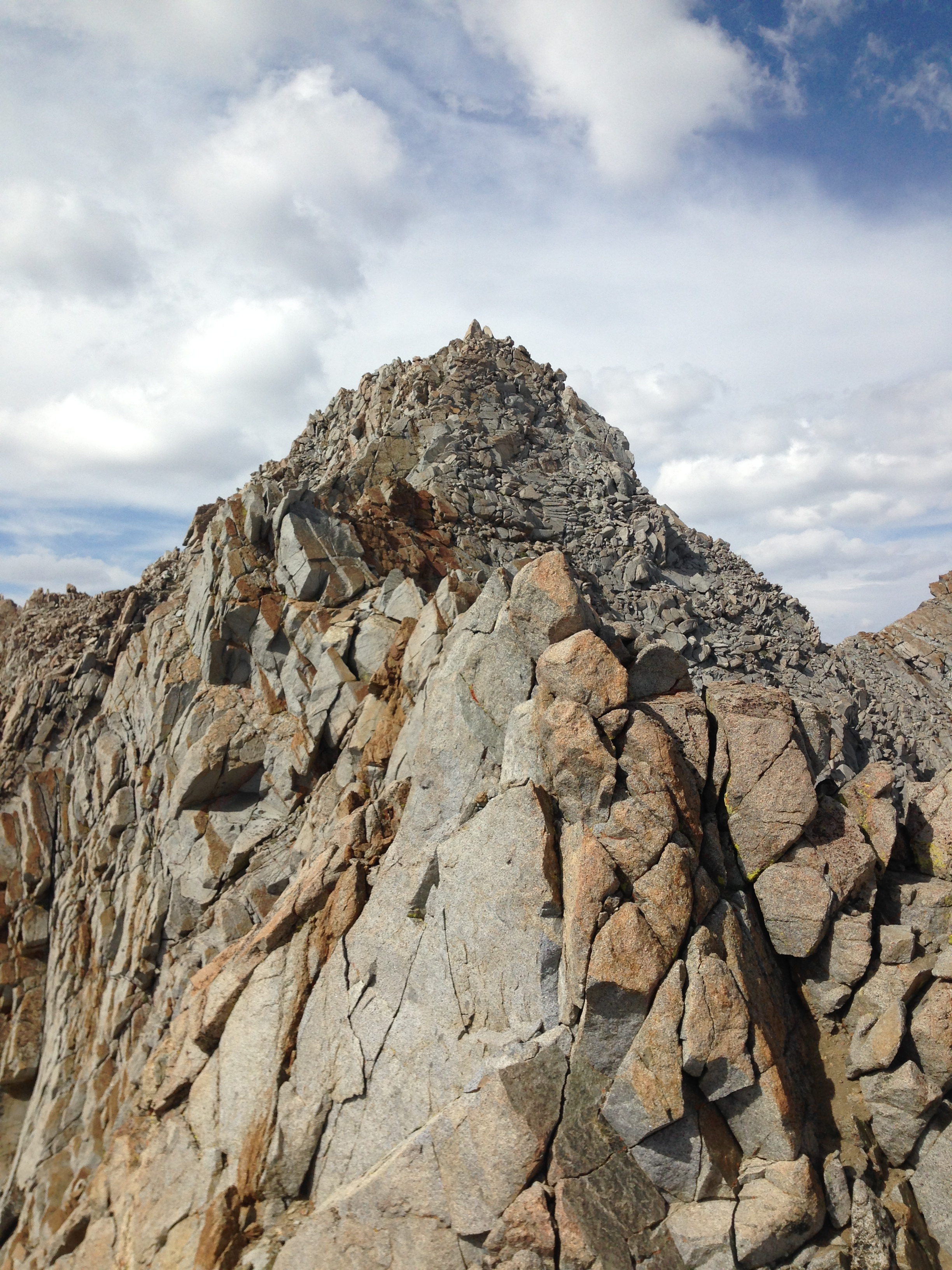 Mount Emerson Summit Ridge - Southeast Face climbing route.